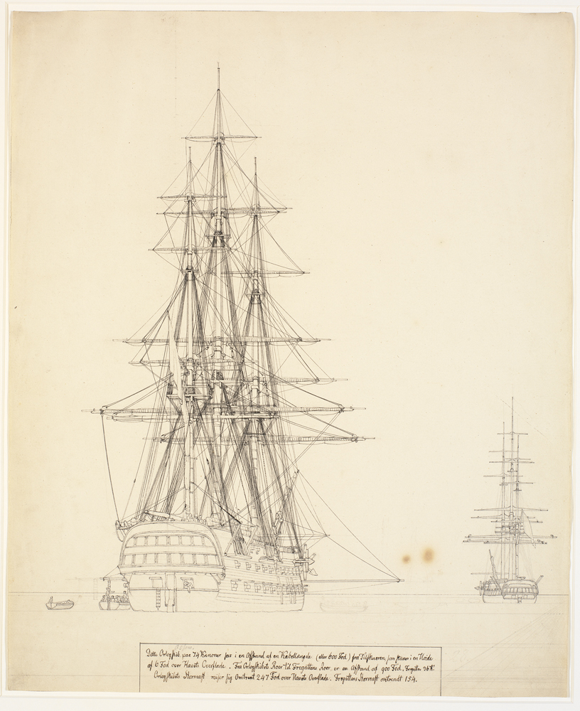 The Russian Ship of the Line "Asow" and a Frigate at Anchor. Drawing, now at Statens Museum for Kunst. The problem with identifying the vessels is, that Azov (74 guns) was at Copenhagen in 1827, while "Hanhuth" (Gangut(?)) and the frigate Provornyi were there in 1828. So it could be Gangut instead. The ships were drawn at Copenhagen, but in the final painting they were placed in the more picturesque surroundings of Elsinore and Kronborg.